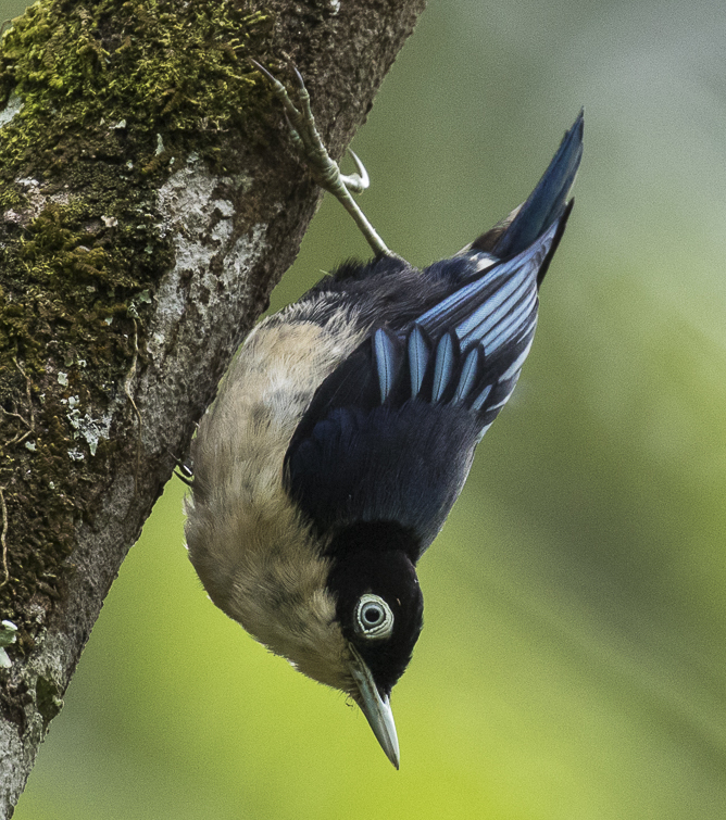 Blue Nuthatch, Sitta azurea, in the Cibodas Botanical Garden, Java, Indonesia.